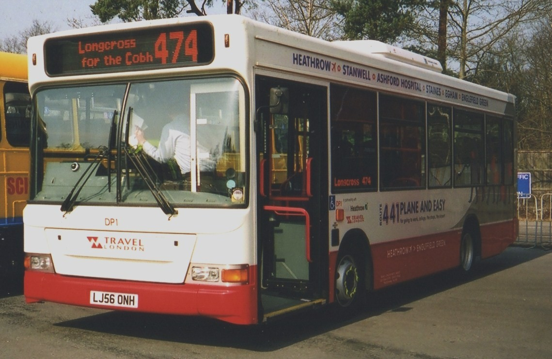 Travel Surrey's DP1 (LJ56 ONH), a Dennis Dart SLF/Plaxton Pointer 2 - one of the last built - at the 2007 at the Cobham bus rally, Longcross test track, 1 April 2007. This bus wears the special 441 livery, for the upgrade of that service. At the time of the photo, the bus still carried "Travel London" fleetnames before the Surrey operations were rebranded.